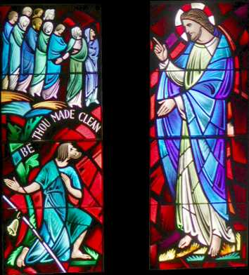 Stained Glass of Jesus cleansing ten lepers.